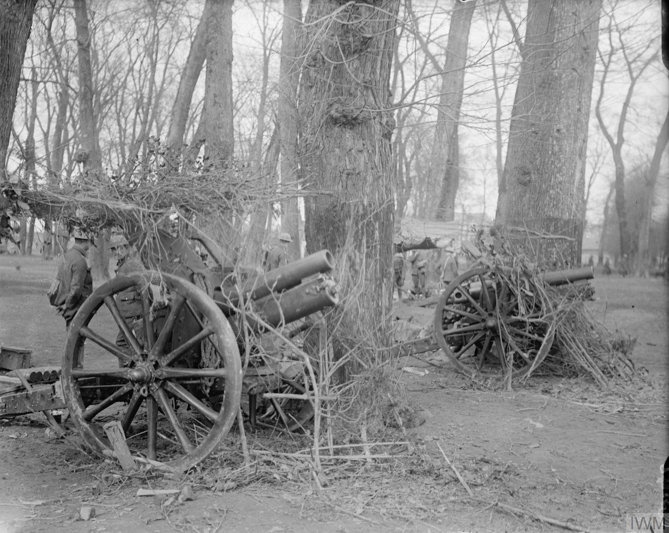 The Battle of Arras, April-may 1917 4.5 inch howitzers of the Royal Field Artillery on the outskirts of Arras (Bandstand, Jardin Public), April 1917.